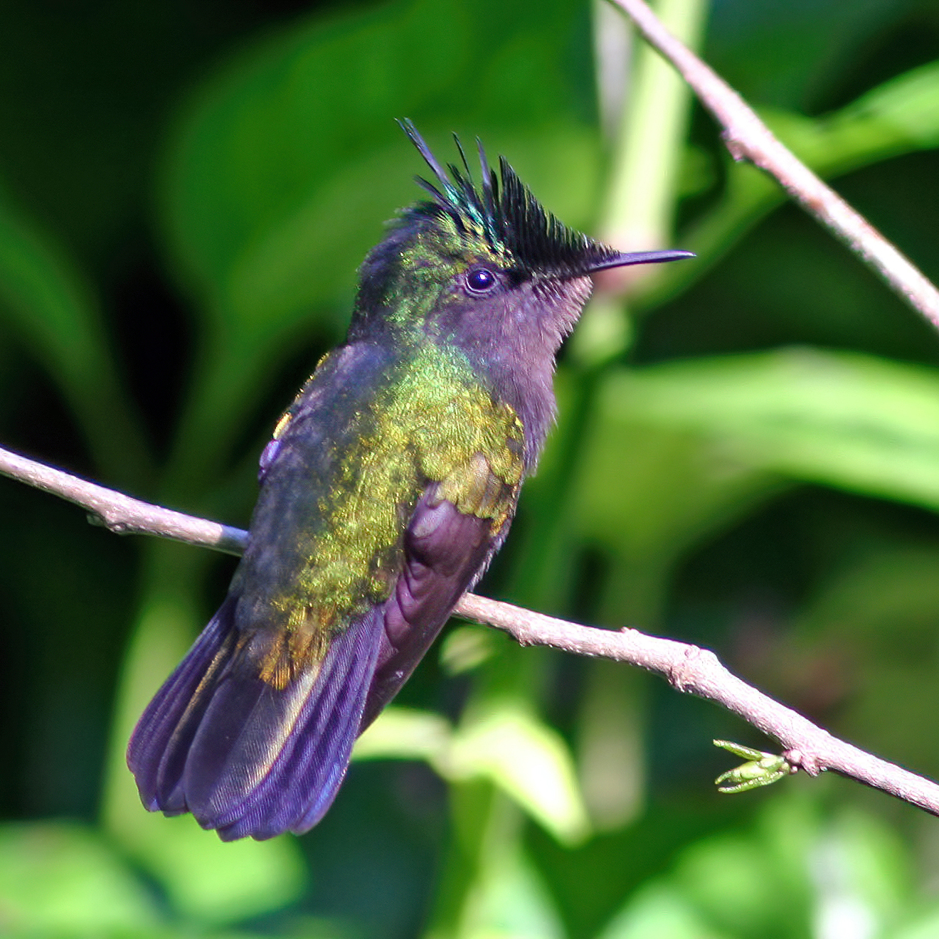 Antillean crested hummingbird (Orthorhyncus cristatus) photographed in its natural habitat in the Morne Diablotins National Park in Dominica. Guide was local expert 'Dr Birdy' Bertrand Baptiste.